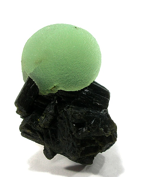 Epidote, Prehnite Locality: Near Sadiola Gold Mine, Kayes, Mali Size: miniature, 5 x 3.2 x 2.8 cm Prehnite on Epidote A very choice miniature, with a complete ball perched on a natural pedestal of epidote.